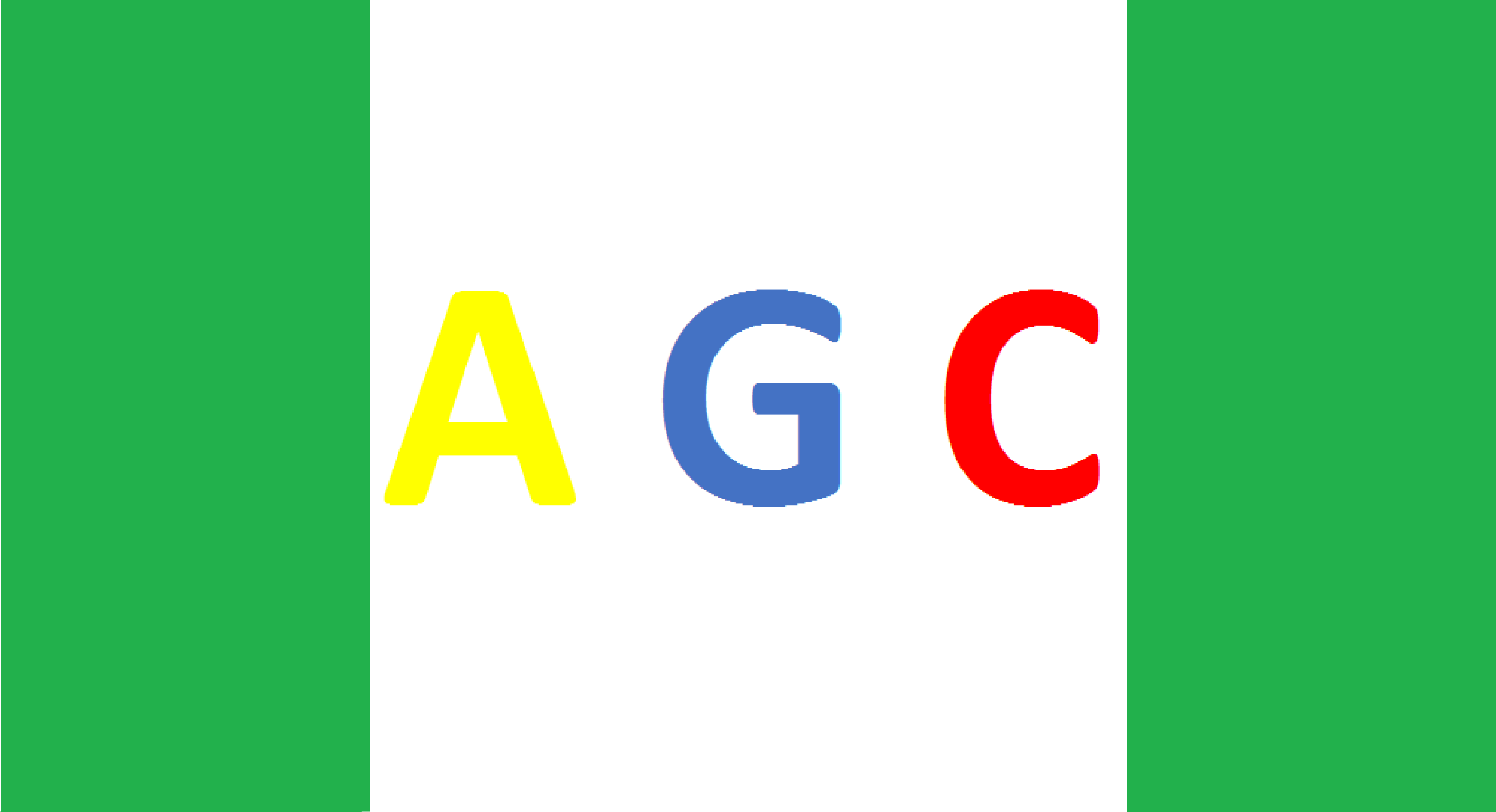 Flag of the AGC, a Colombian paramilitary group.